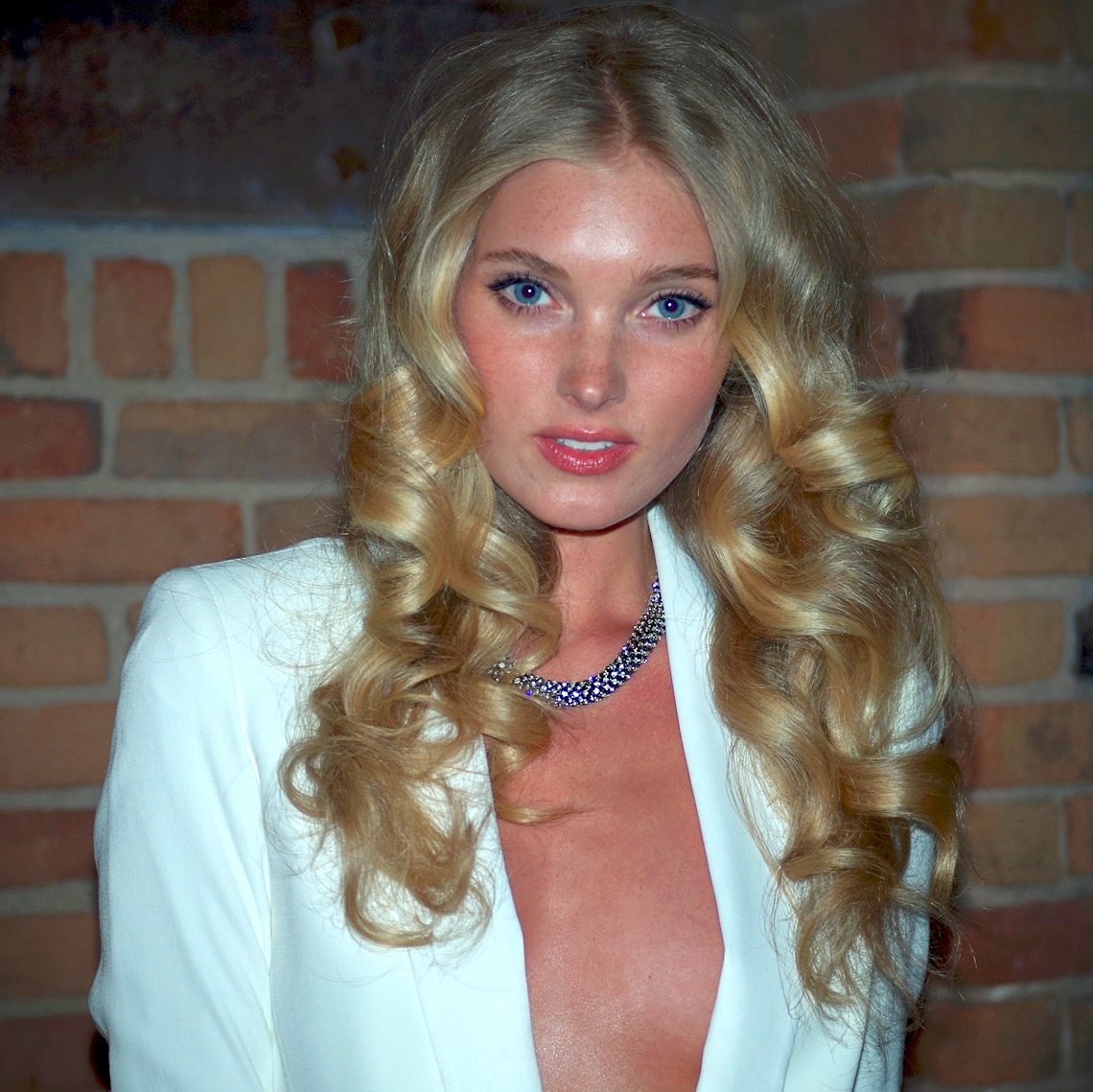 Elsa Anna Sofie Hosk (born 7 November 1988) is a Swedish fashion model Backstage Lancaster in Montreal